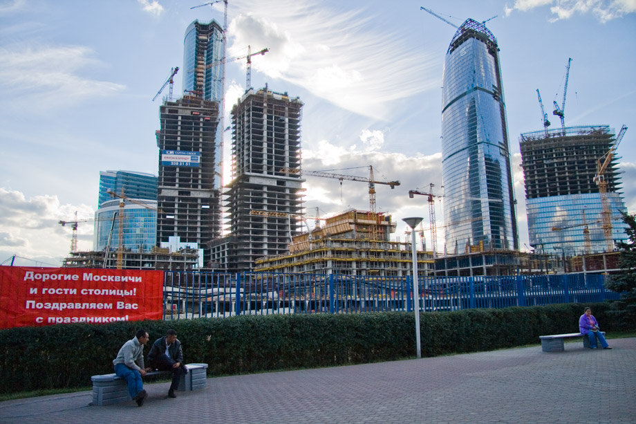 Moscow IBC on September 2 2007.